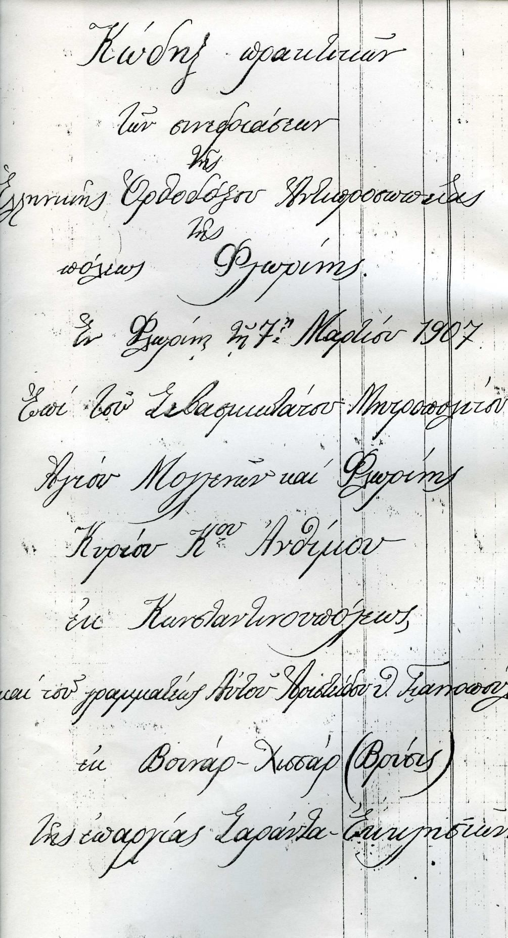 Moglen Mitropoly Codex 1907